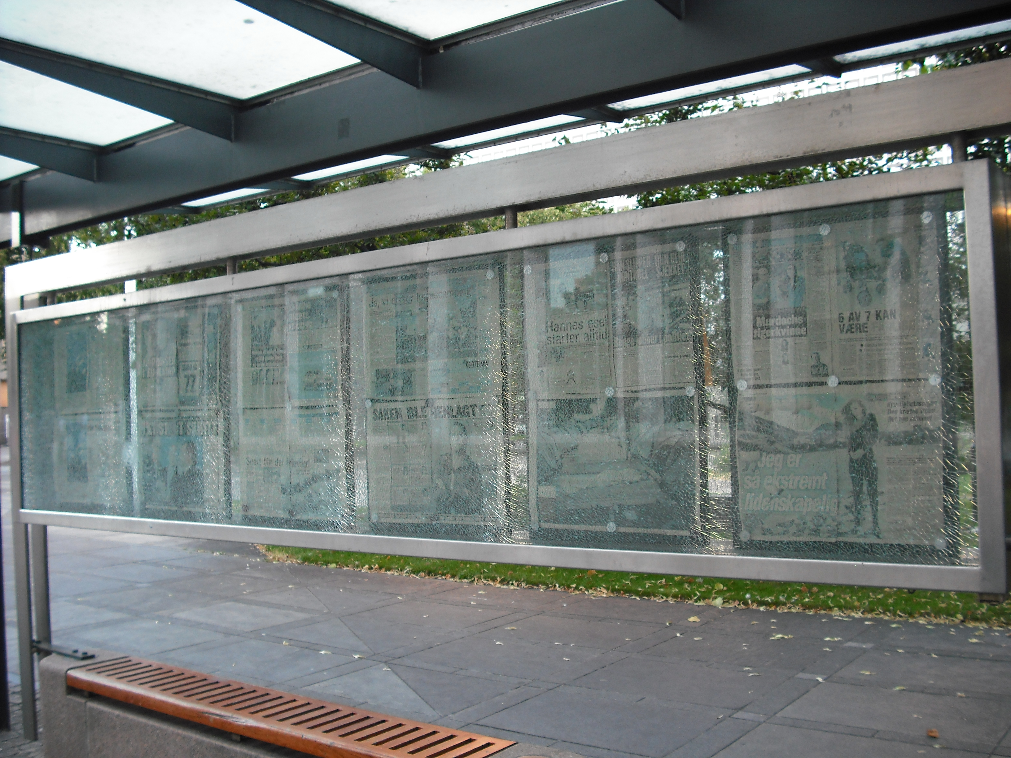 Newspaper panel damaged in the 2011 Oslo explosion